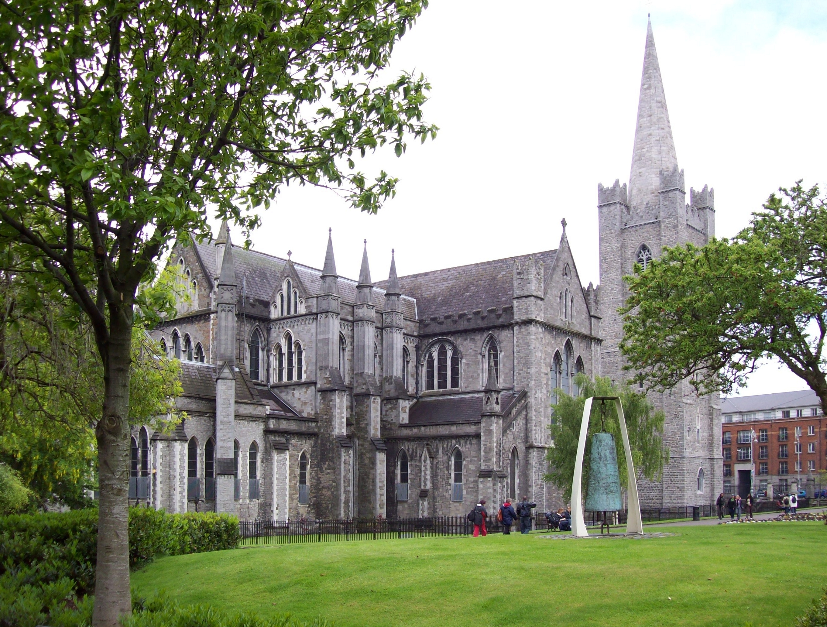 St. Patrick's Cathedral, Dublin